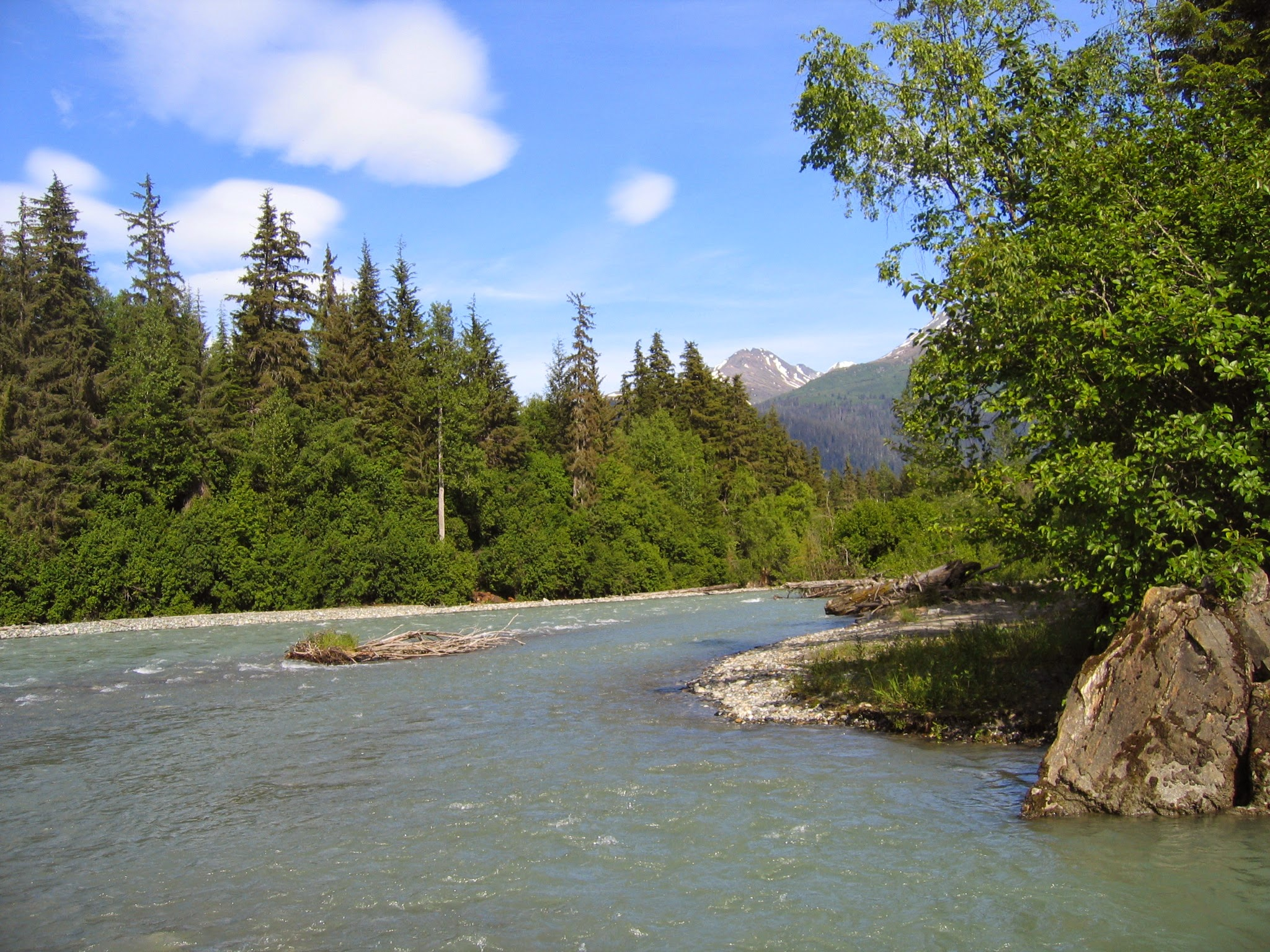 The Kelsall River near its mouth in Southeast Alaska